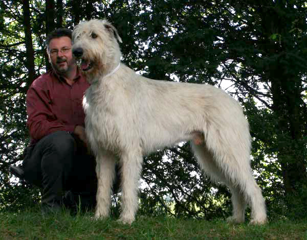 Der Irish Wolfhound - Irish Giaccomo von den Sarrazenen